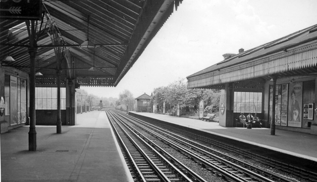 Boston Manor Station. View westward, towards Hounslow and Heathrow; LT Piccadilly (originally District) Line from North and Central London to Heathrow (Terminal 5).